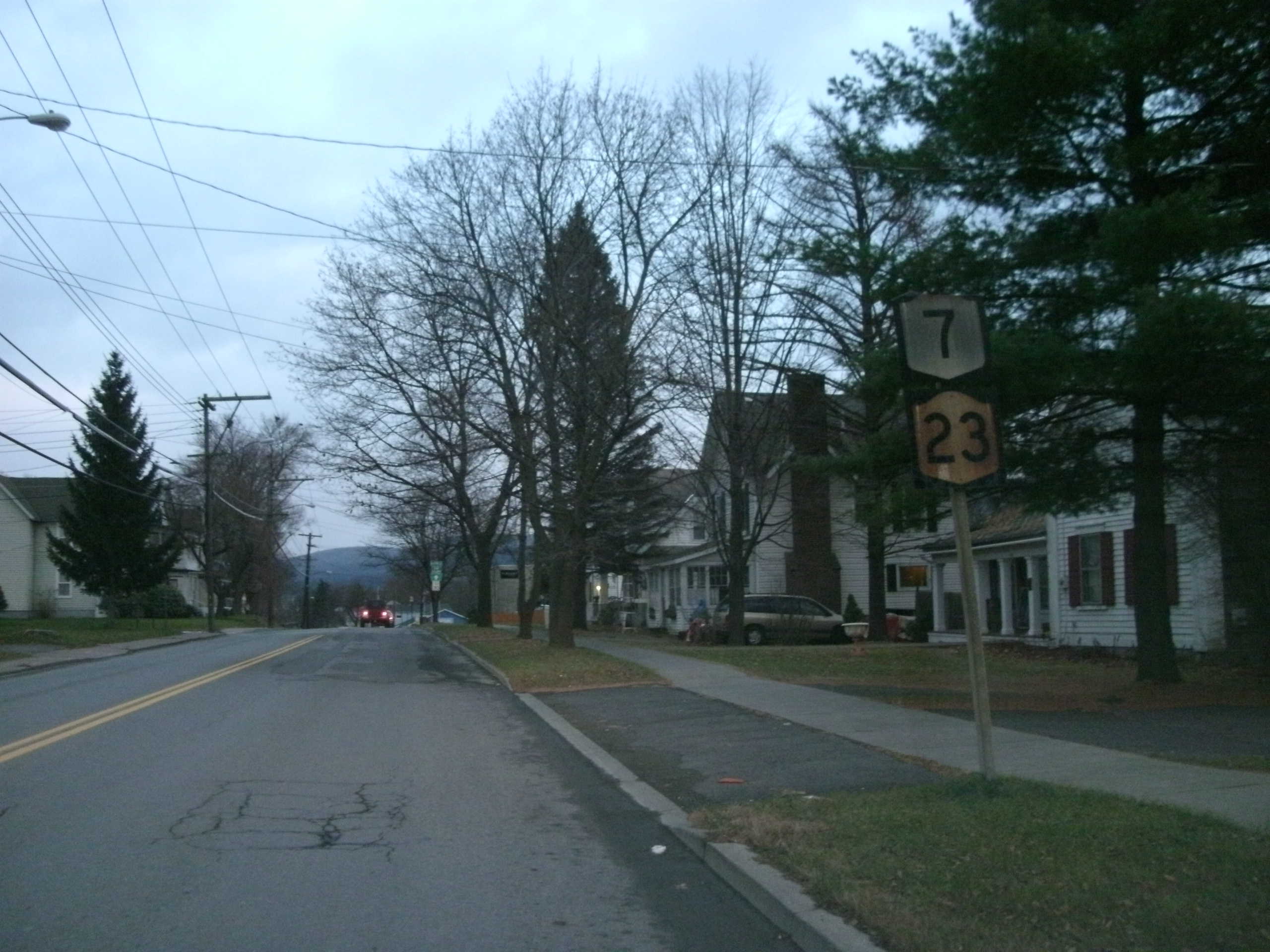 Old shields on New York State Route 7 and New York State Route 23 in Oneonta.